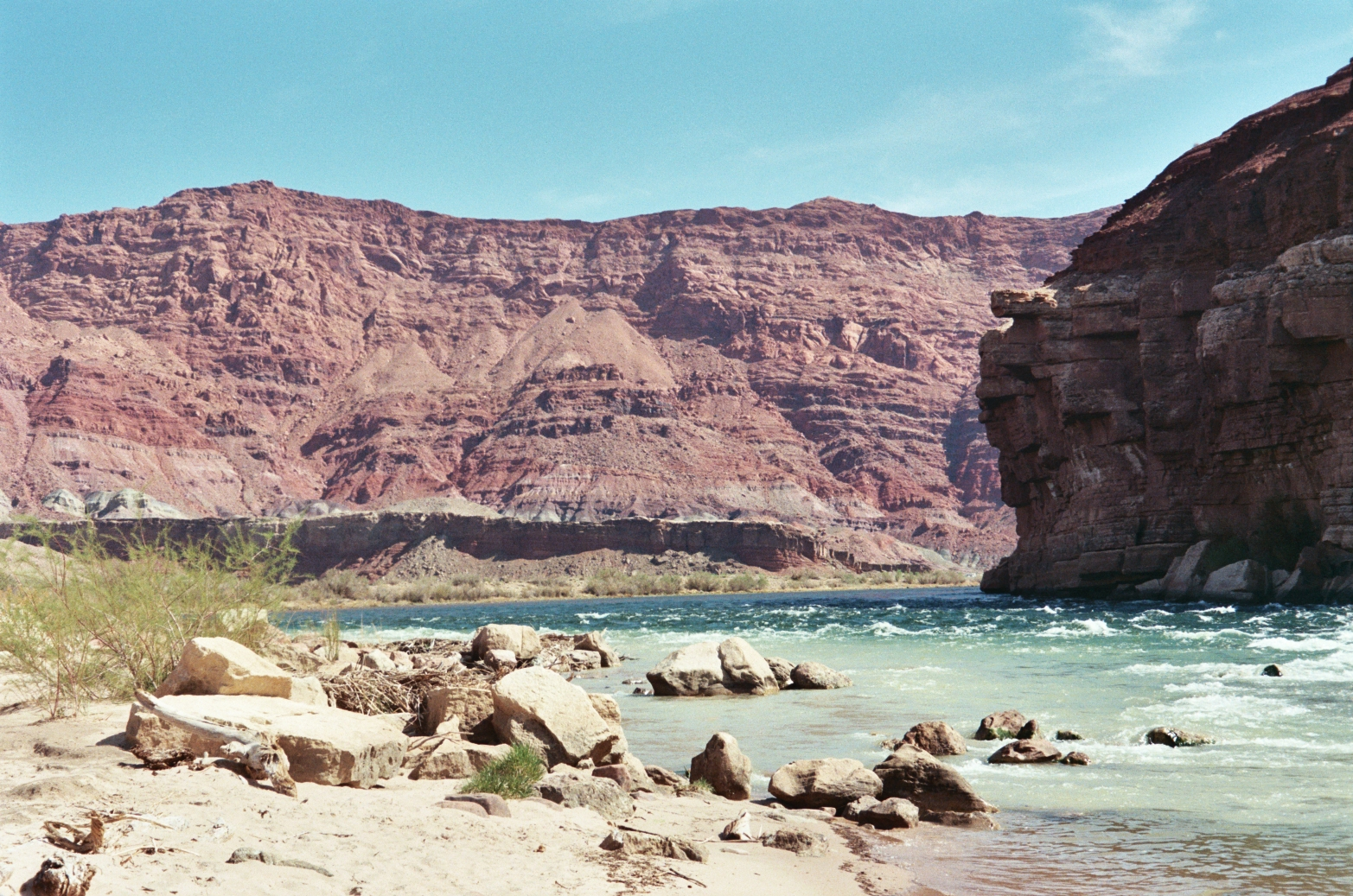 Beach along the Colorado River at Lee's Ferry.